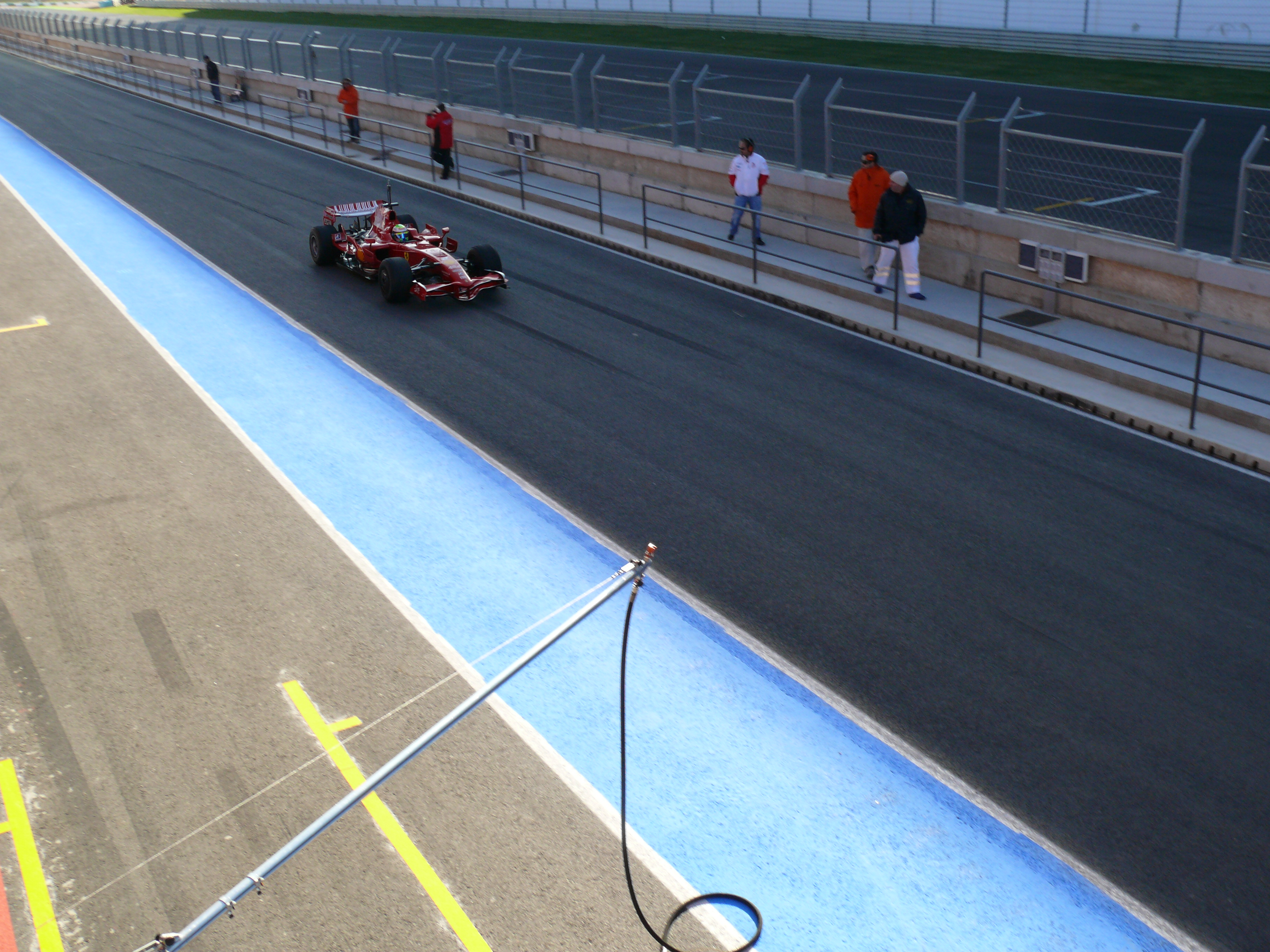 Felipe Massa at the "Autódromo Internacional do Algarve", Portugal